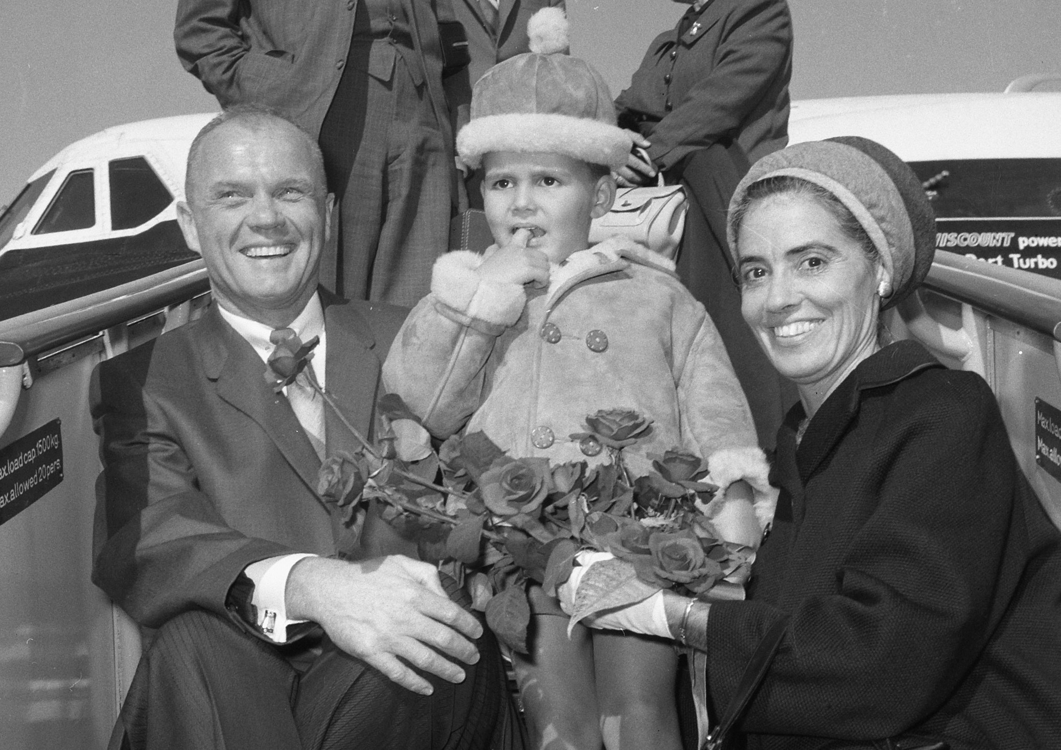 John Glenn and his wife Anna Margaret Castor in Schiphol (the child is not John David Glenn, born 1945)